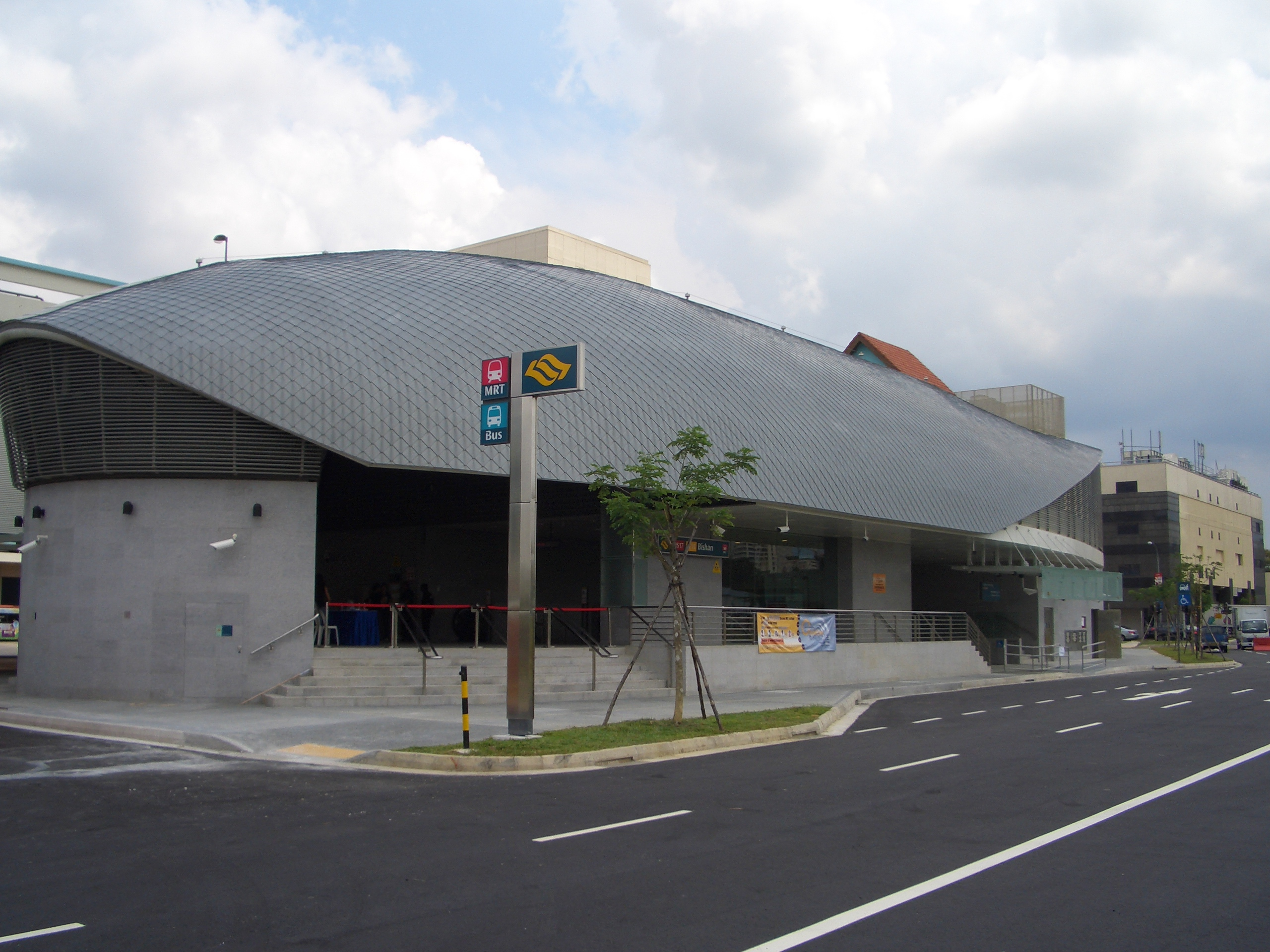 The exit of Bishan MRT Station on to Bishan Place and Bishan Bus Interchange in Singapore.